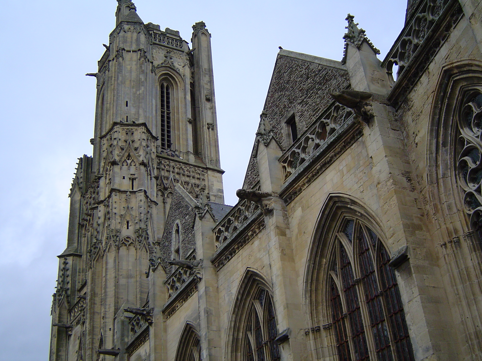 Notre-Dame church, Saint-Lô